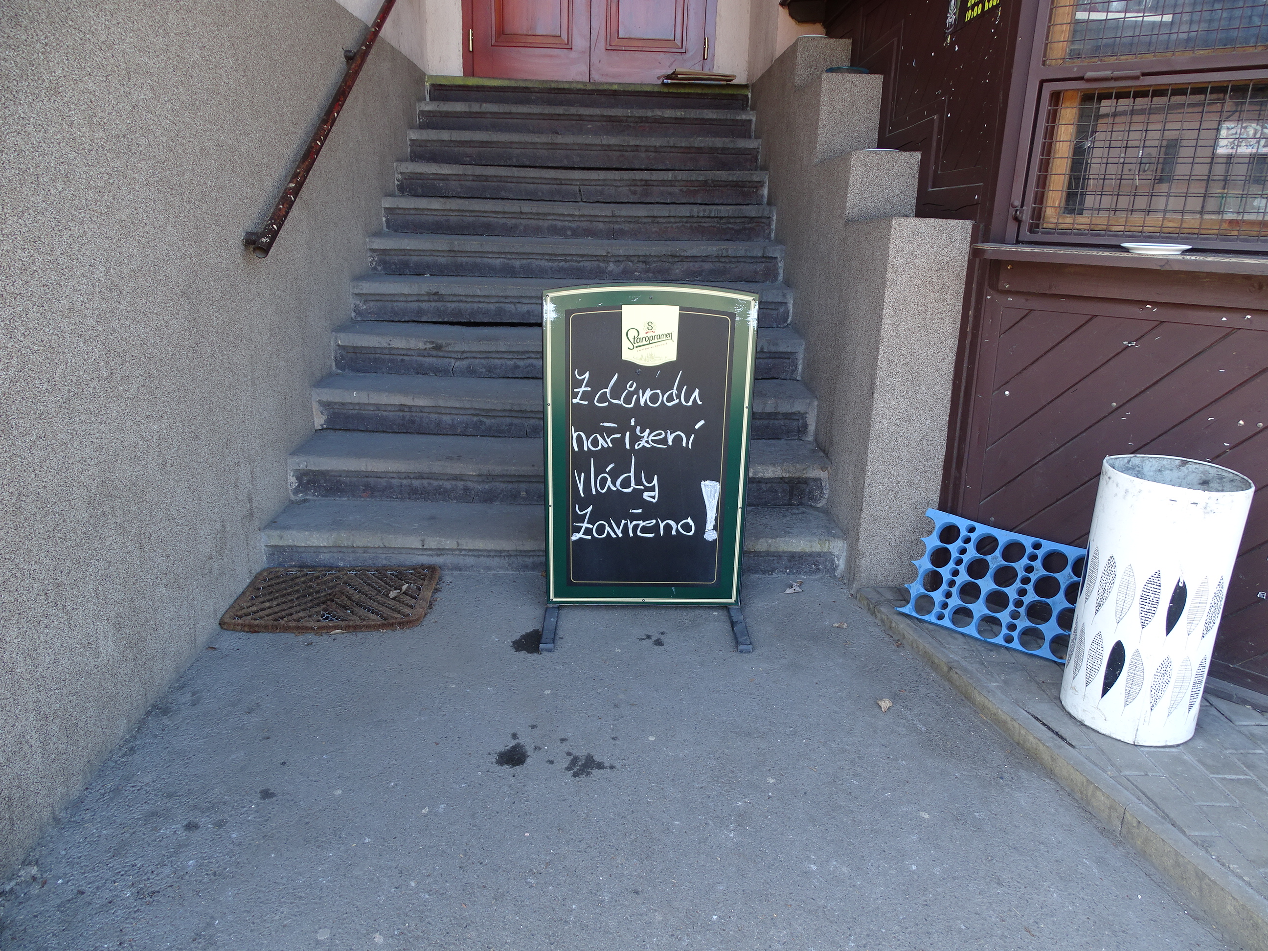 Nižbor, Beroun District, Central Bohemian Region, Czechia. A restaurant closed due to the coronavirus epidemic.